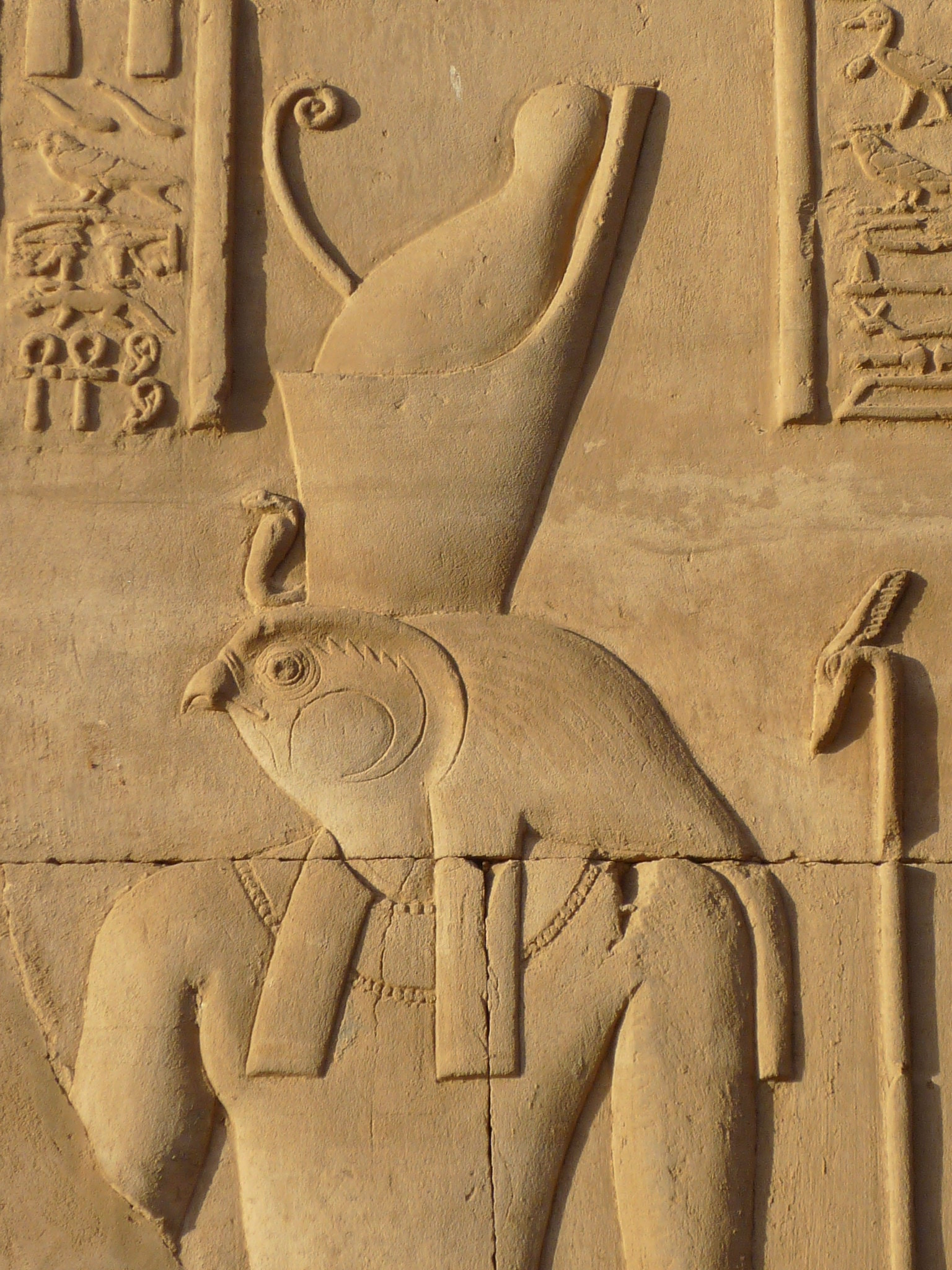 Wall relief of Horus, Kom Ombo Temple, Egypt